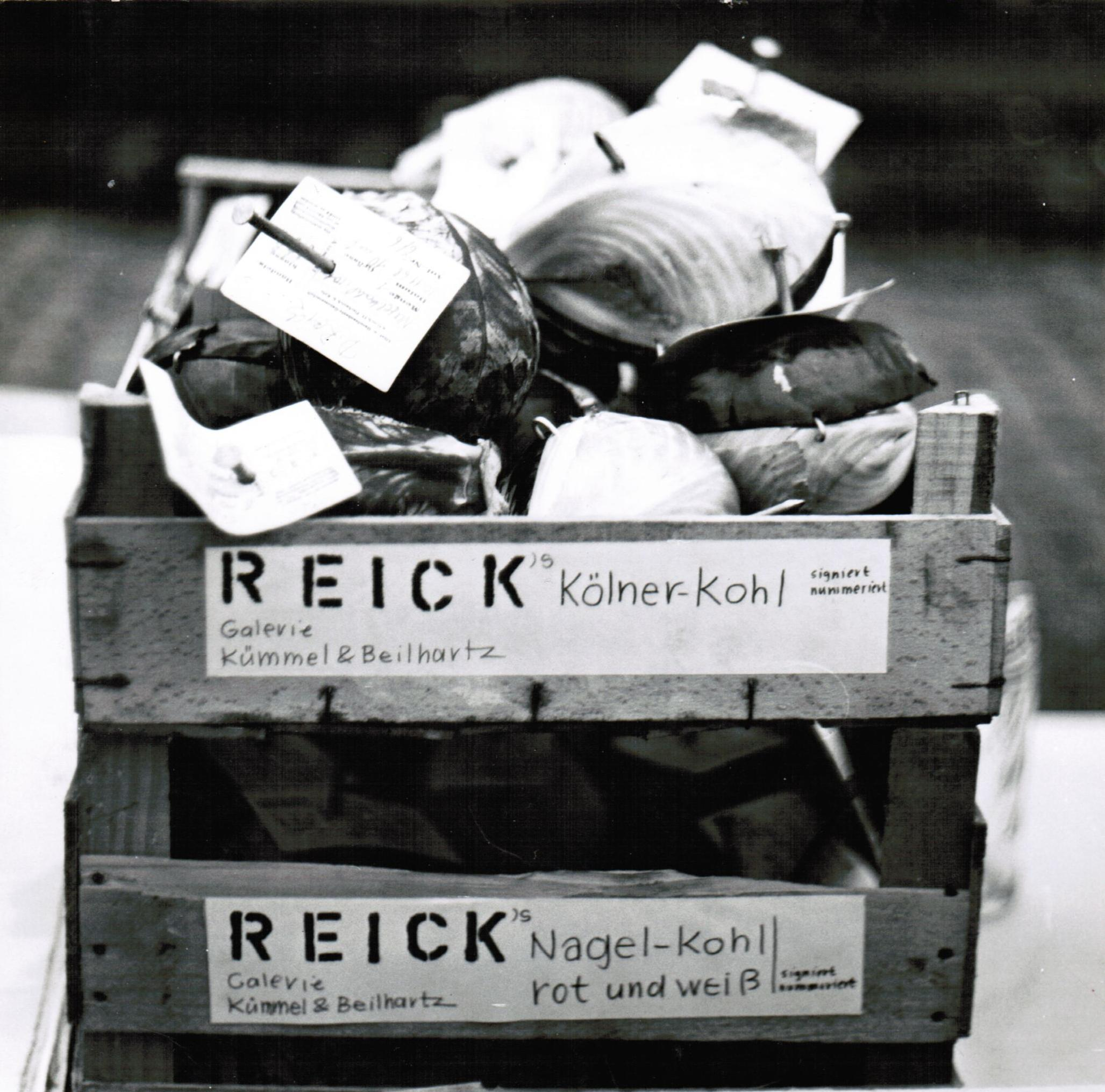 The picture shows two crates filled with "Dieter Reick's Cologne cabbage". This cabbage was combined from two halves of white and red cabbage (the traditional colors of Cologne), kept together by a long nail knocked through both. The picture was taken around Christmas 1969 before the artist offered his cabbage for sale at the weekly market in Cologne-Braunsfeld together with the galery owner Ingo Kümmel who was running a market stall there.